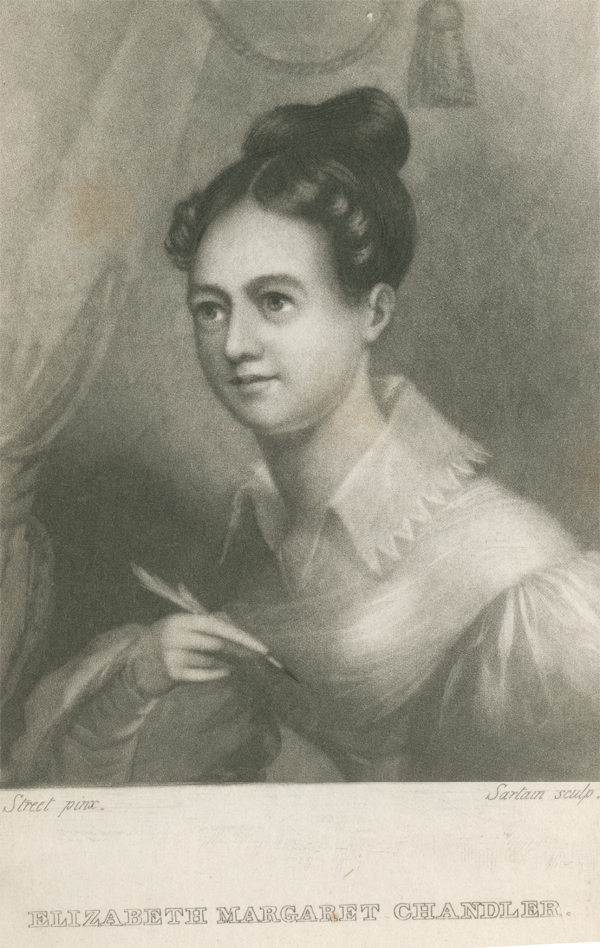 Portrait of Elizabeth Margaret Chandler (1807 – 1834)